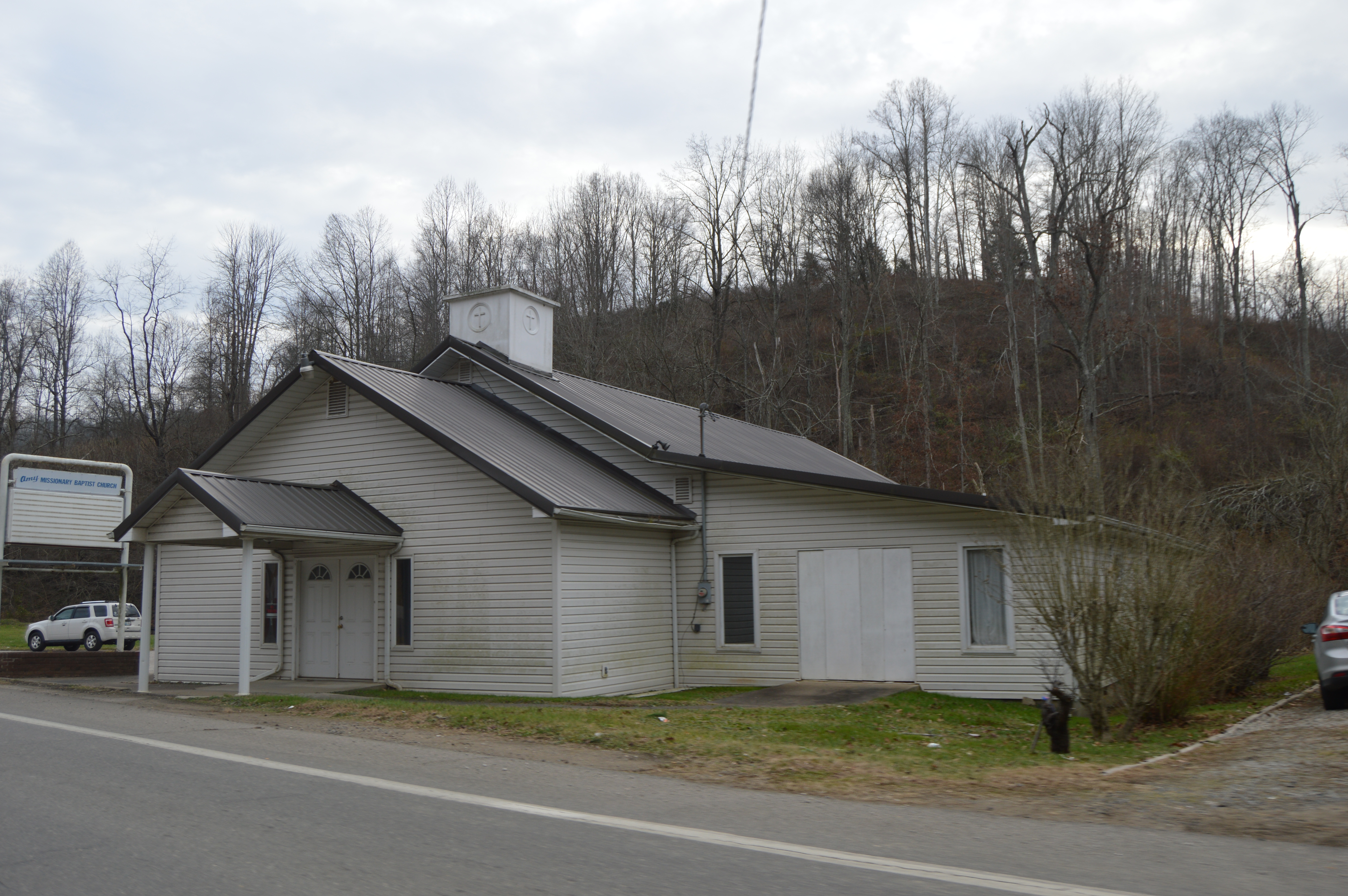 Western side and front of the Amy Missionary Baptist Church, located at the junction of West Virginia Routes 3 and 214 at Yawkey in Lincoln County, West Virginia, United States.